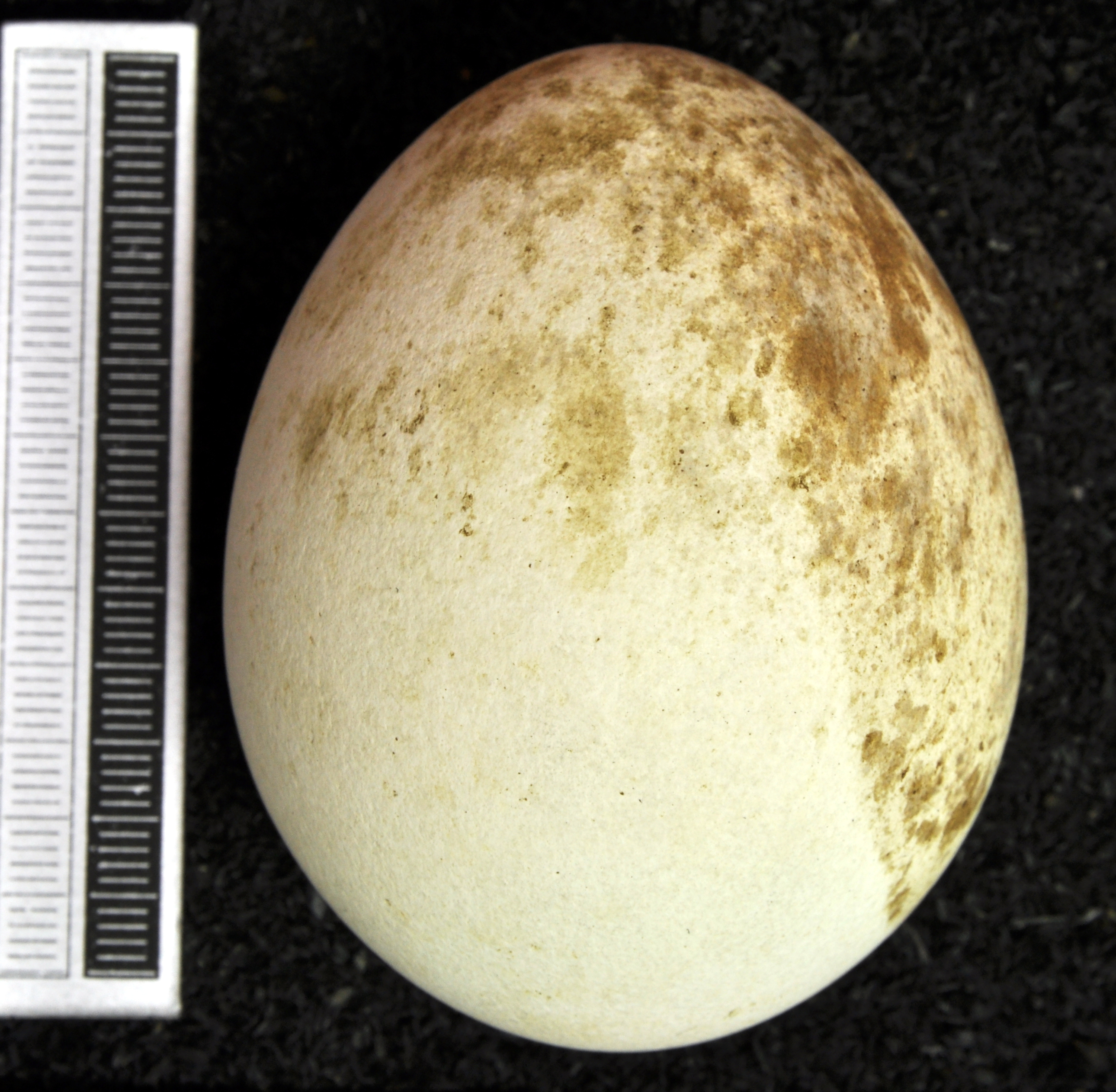 Greater spotted eagle Aquila clanga , egg, Coll. Museum Wiesbaden